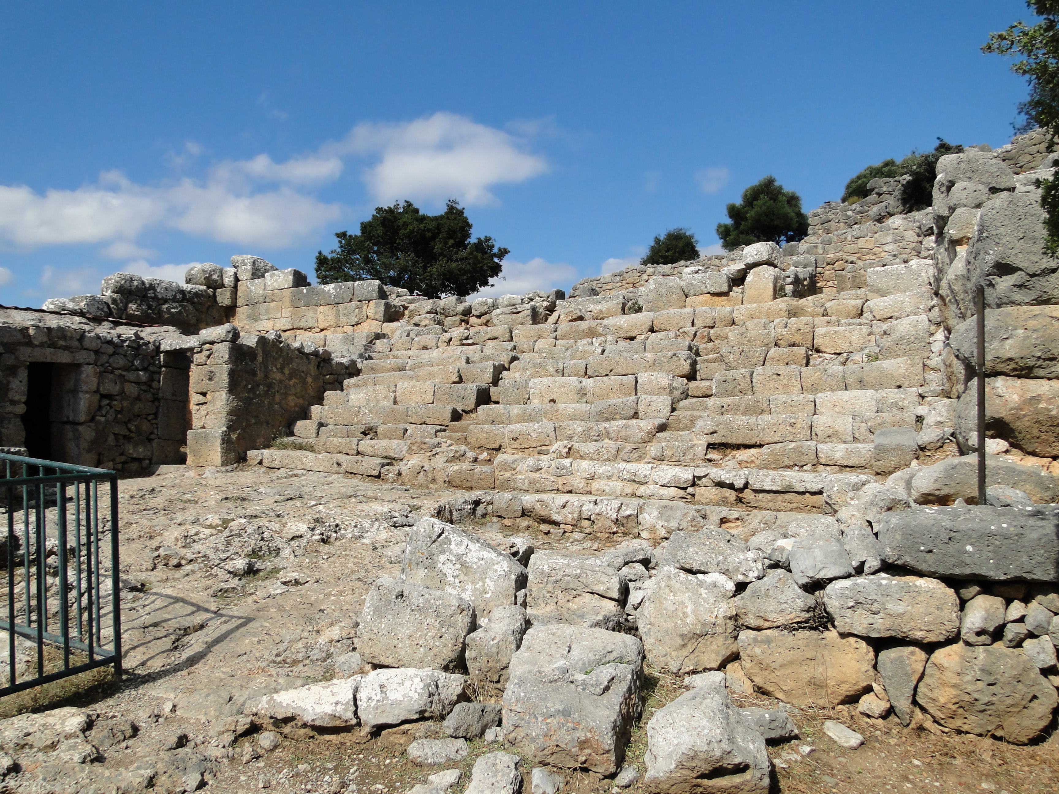 The steps leading to the Prytaneion, Lato, Crete, Greece